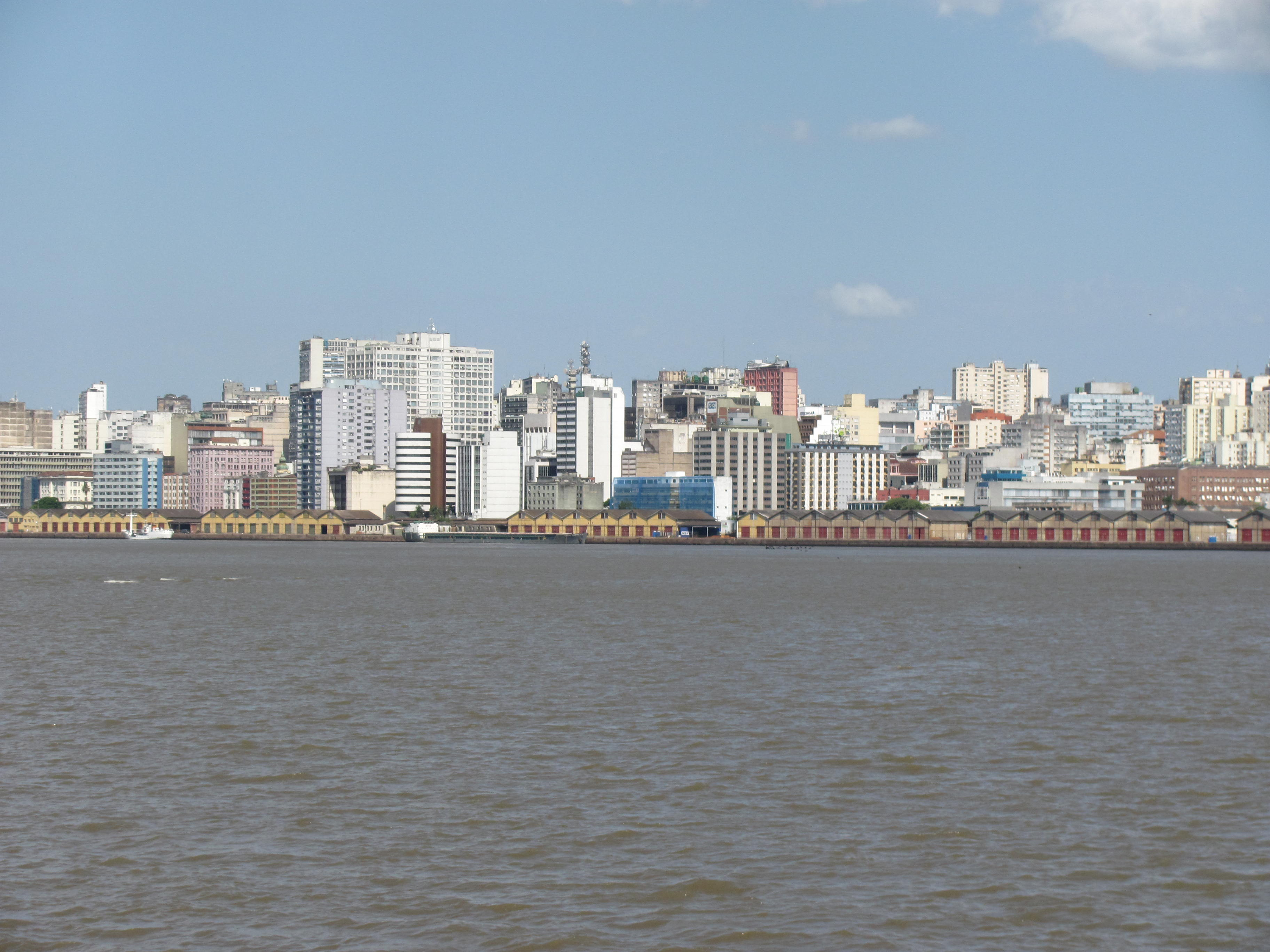 View of Porto Alegre, from a boat on the river Guaíba